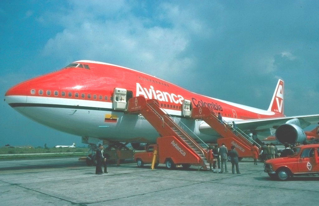 Avianca's Boeing 747-124, HK-2000 AKA "Eldorado".